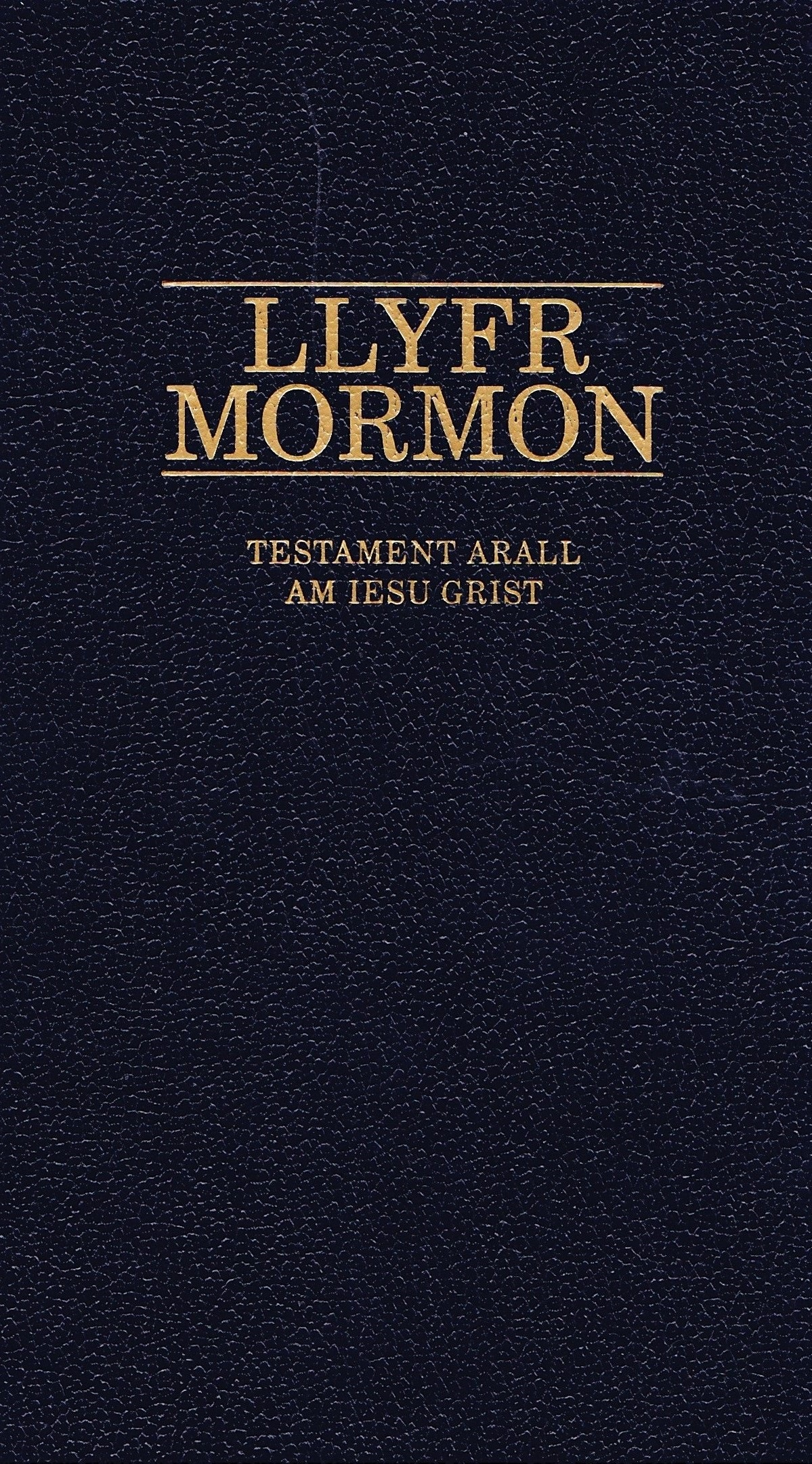 Book of Mormon in Welsh; Published by The Church of Jesus Christ of Latter-day Saints